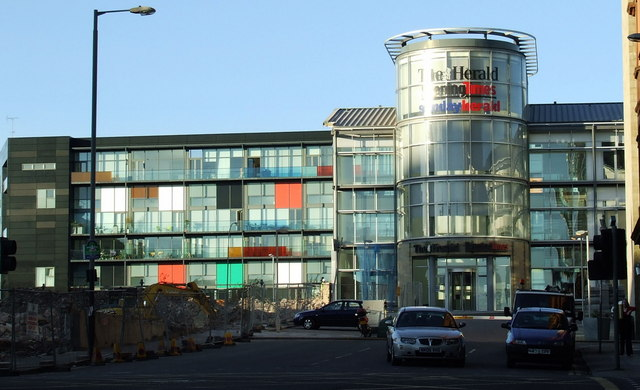 The Herald building Home of The Herald, Sunday Herald and Evening Times newspapers.